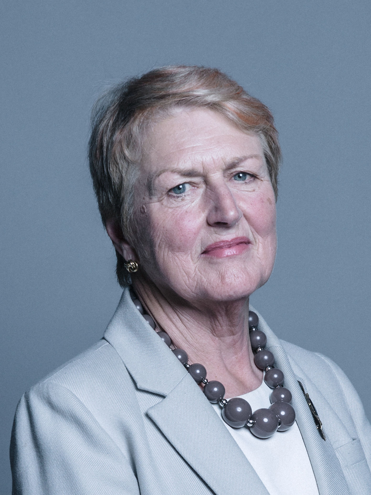 Official portrait of Baroness Young of Old Scone